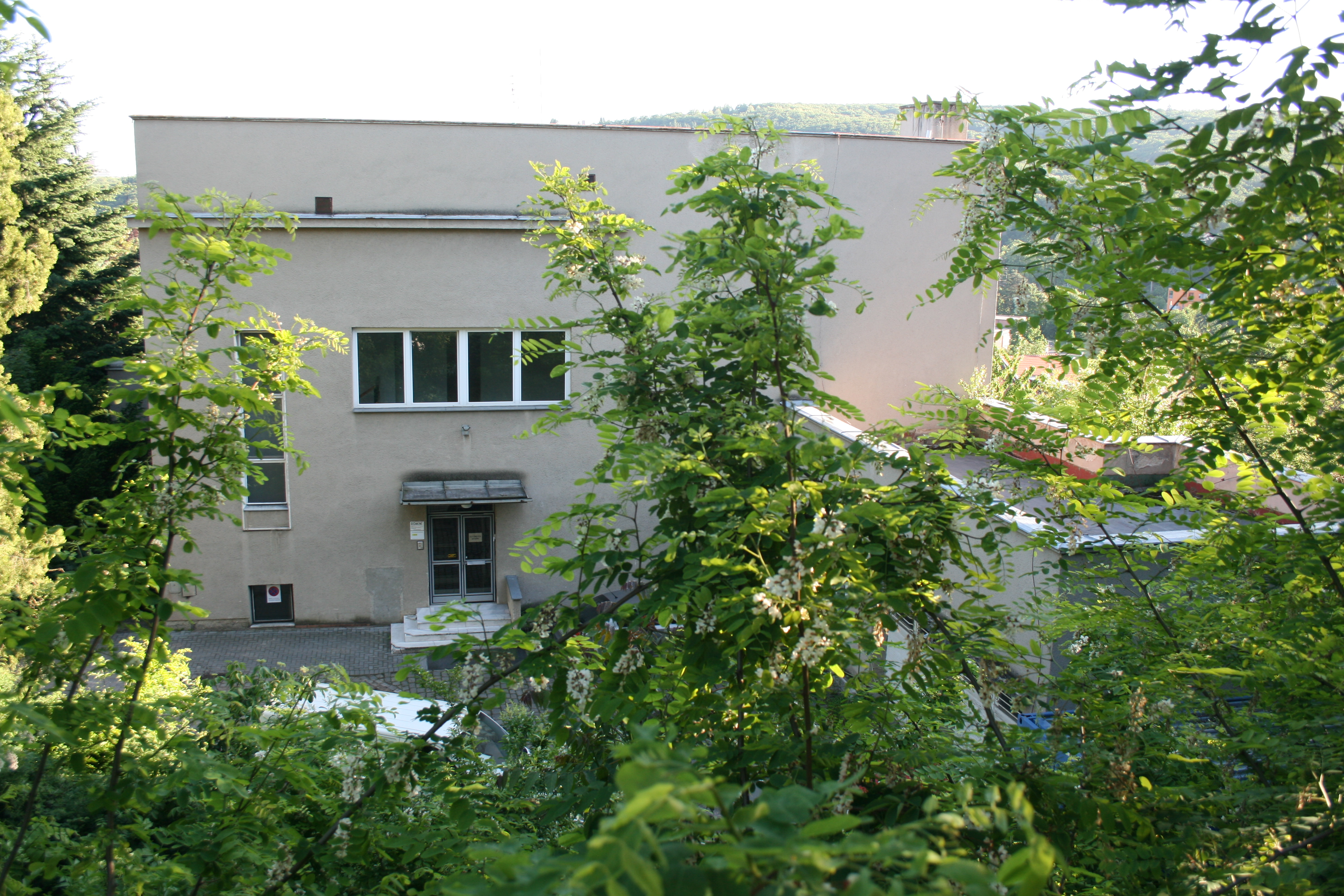 Villa of E. Münz by Ernst Wiesner, Brno, Czech Republic.